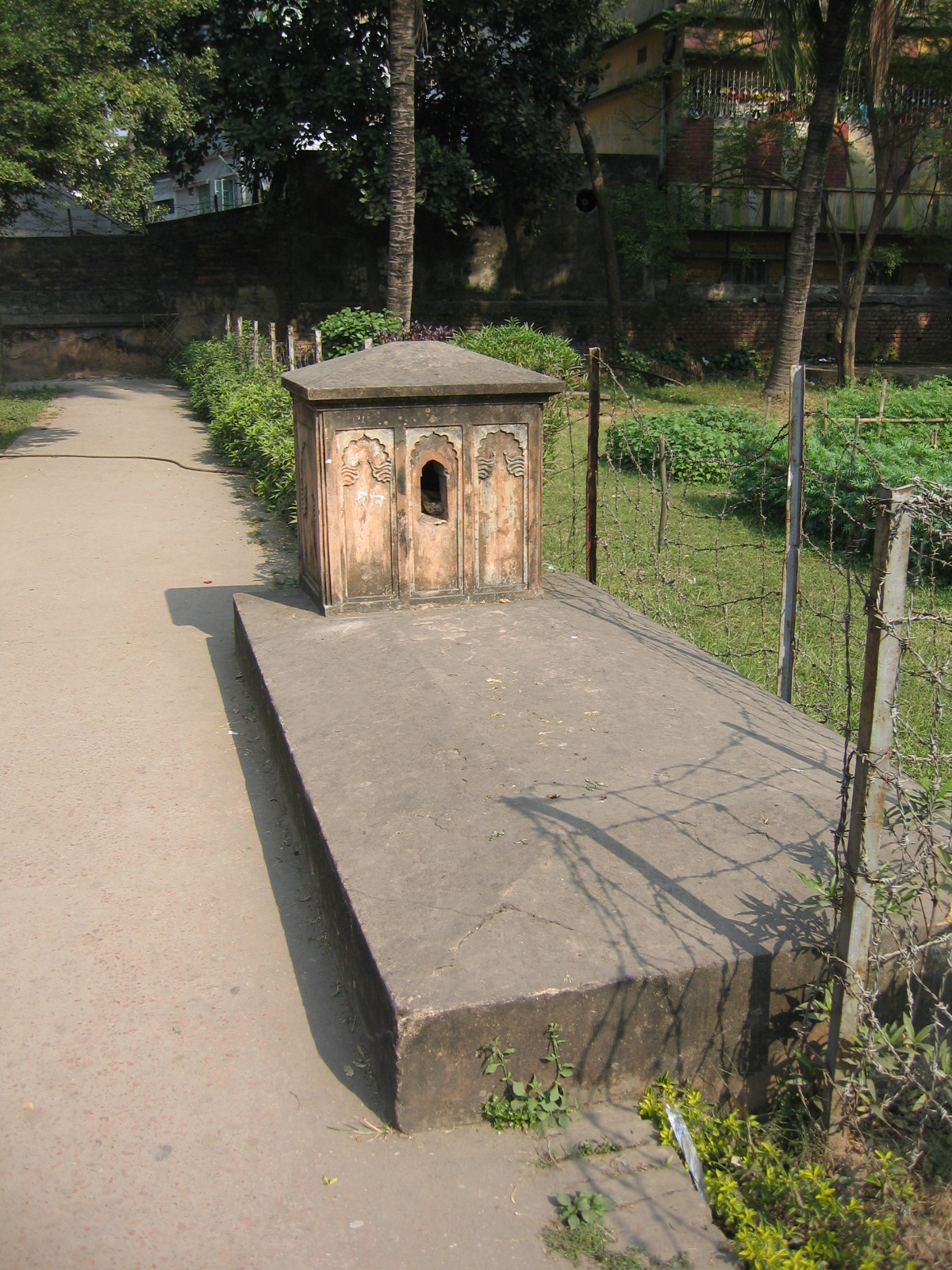 Tomb at Khan Mohammad Mirdha's Mosque, Old Dhaka, Bangladesh